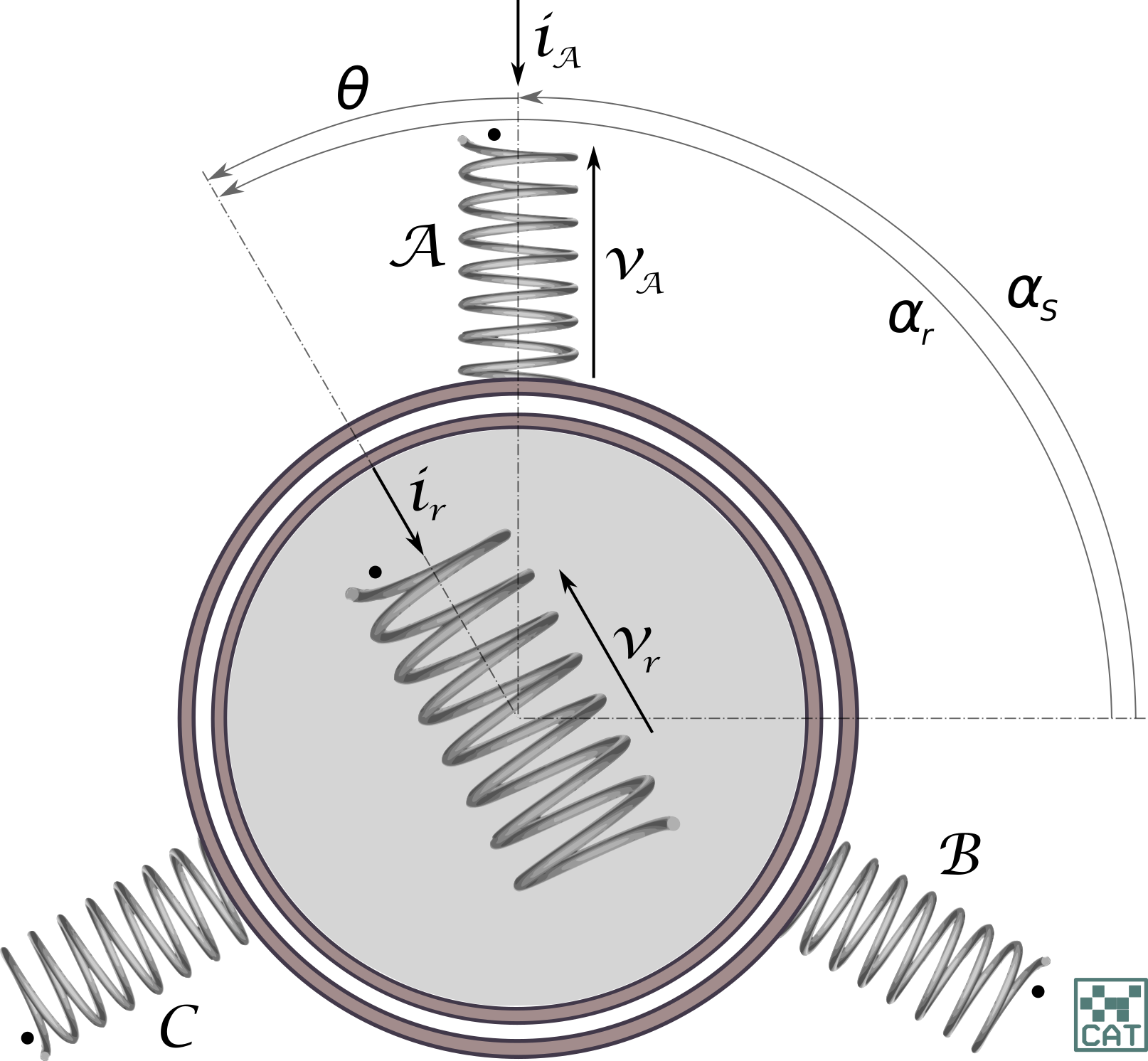 Diagram of a Synchronous Machine